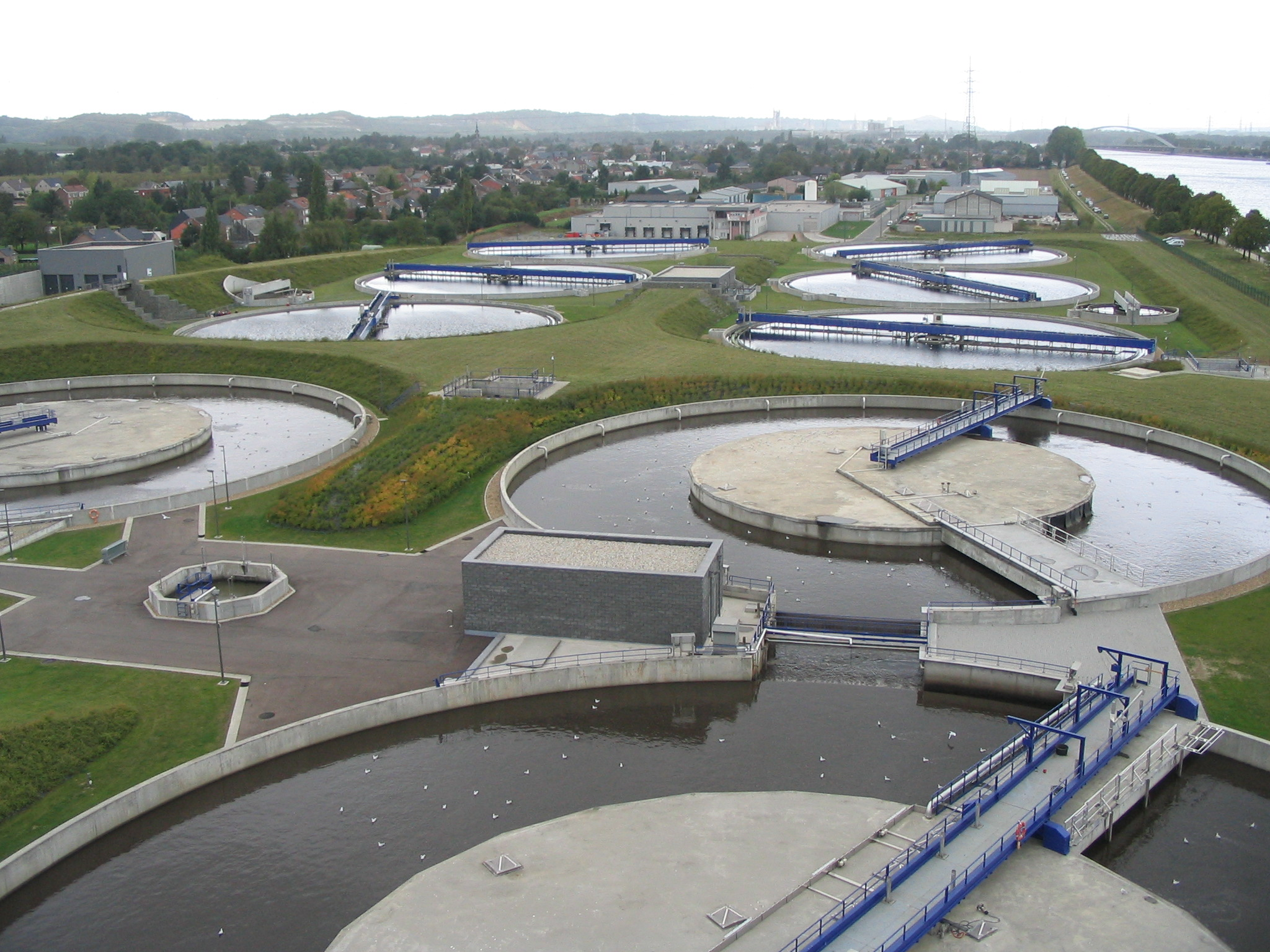 Oupeye (Belgium) biological sewage treatment